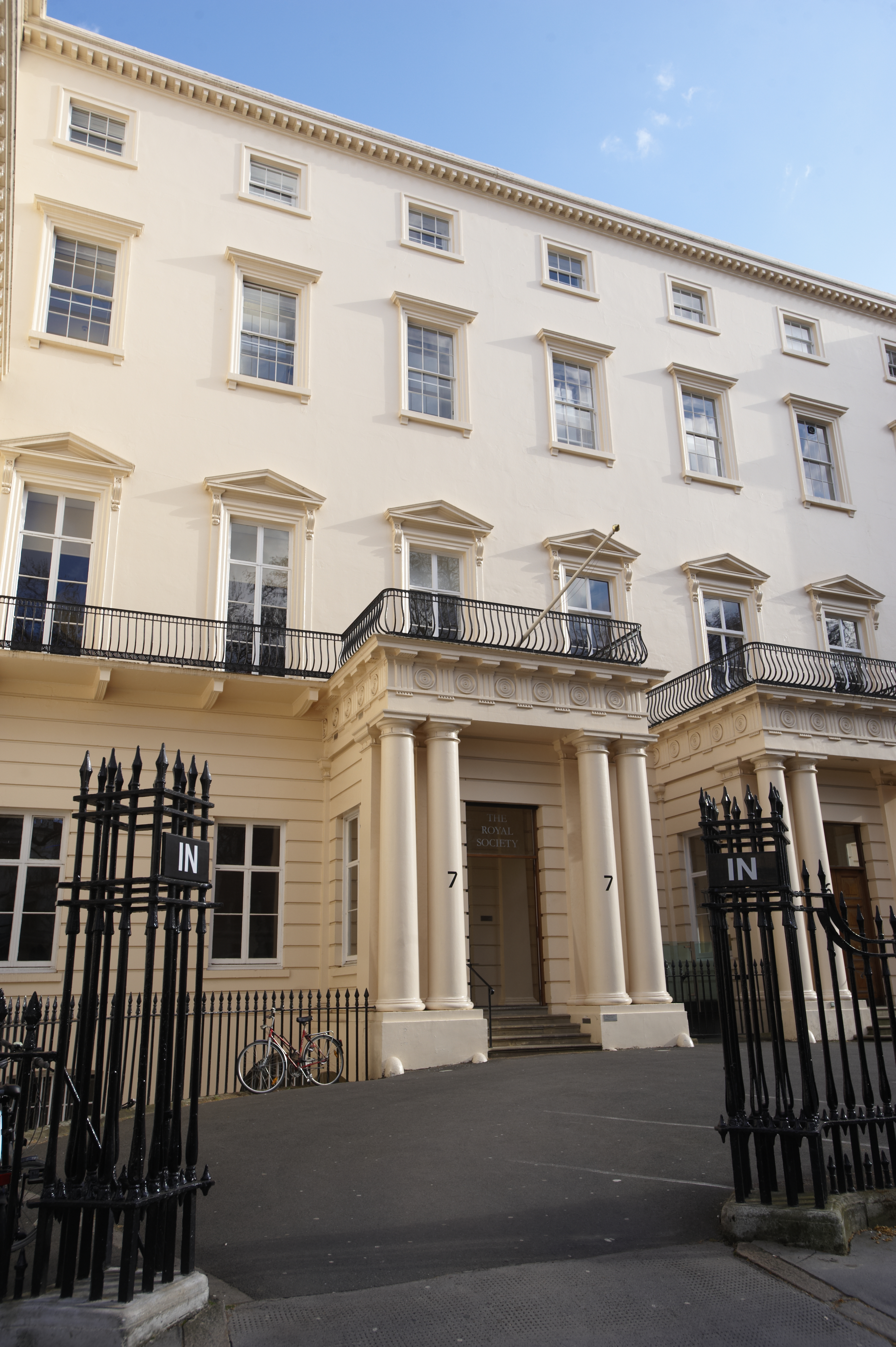 The Royal Society at its London premises, 7-9 Carlton House Terrace Attribution: The Royal Society